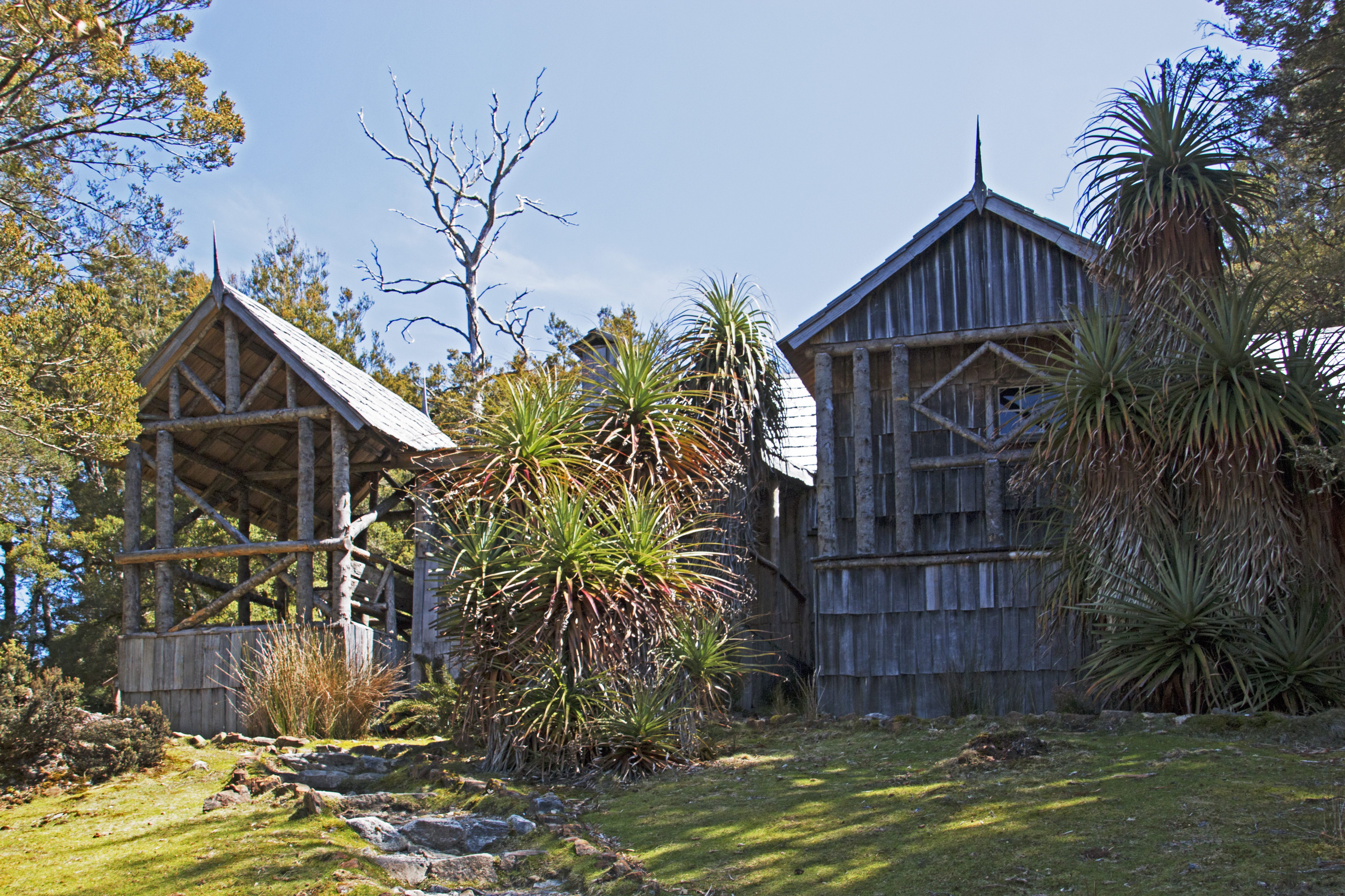 Gustav Weindorfer's chalet, called Waldheim (rebuilt)